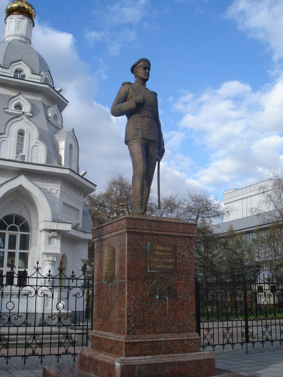 Aleksandr Kotomkin-Savinsky monument, Nikonova Square, Yoshkar-Ola, Mari El, Russia